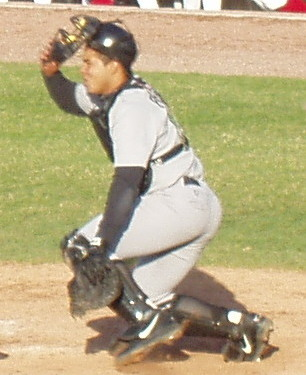 Miguel Perez as a catcher with the Dayton Dragons in a 2003 game against the Lansing Lugnuts.